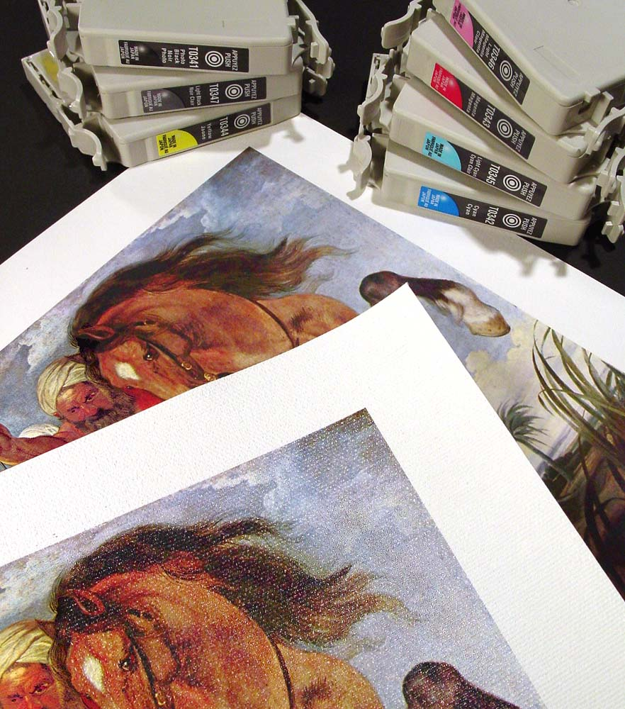 (Peter Paul Rubens The Hippopotamus Hunt printed on paper and canvas with an Epson 7 color pigmented ink printer (printer and prints commonly called Giclée).